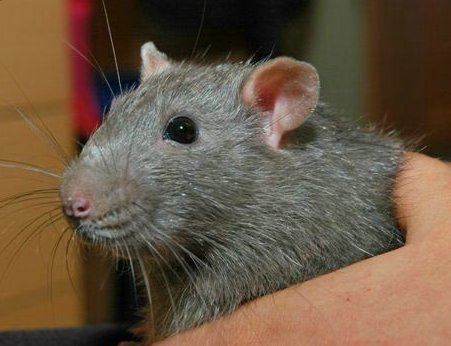 Fancy rat, colour: agouti russian blue Photo: Joanna Servaes (With thank from her website)